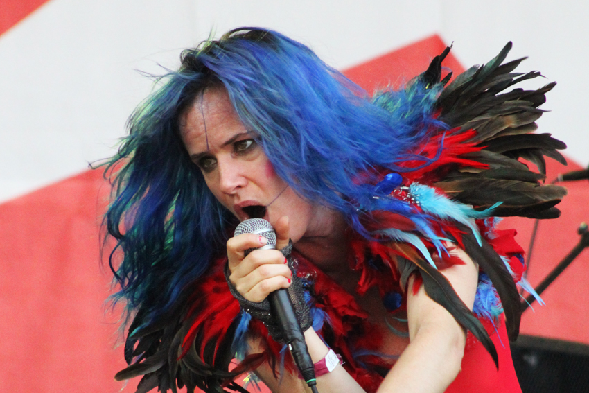 Juliette Lewis on (Terra Incognita) tour with the New Romantiques at Parkpop festival, the Hague, the Netherlands, 2010-06-27